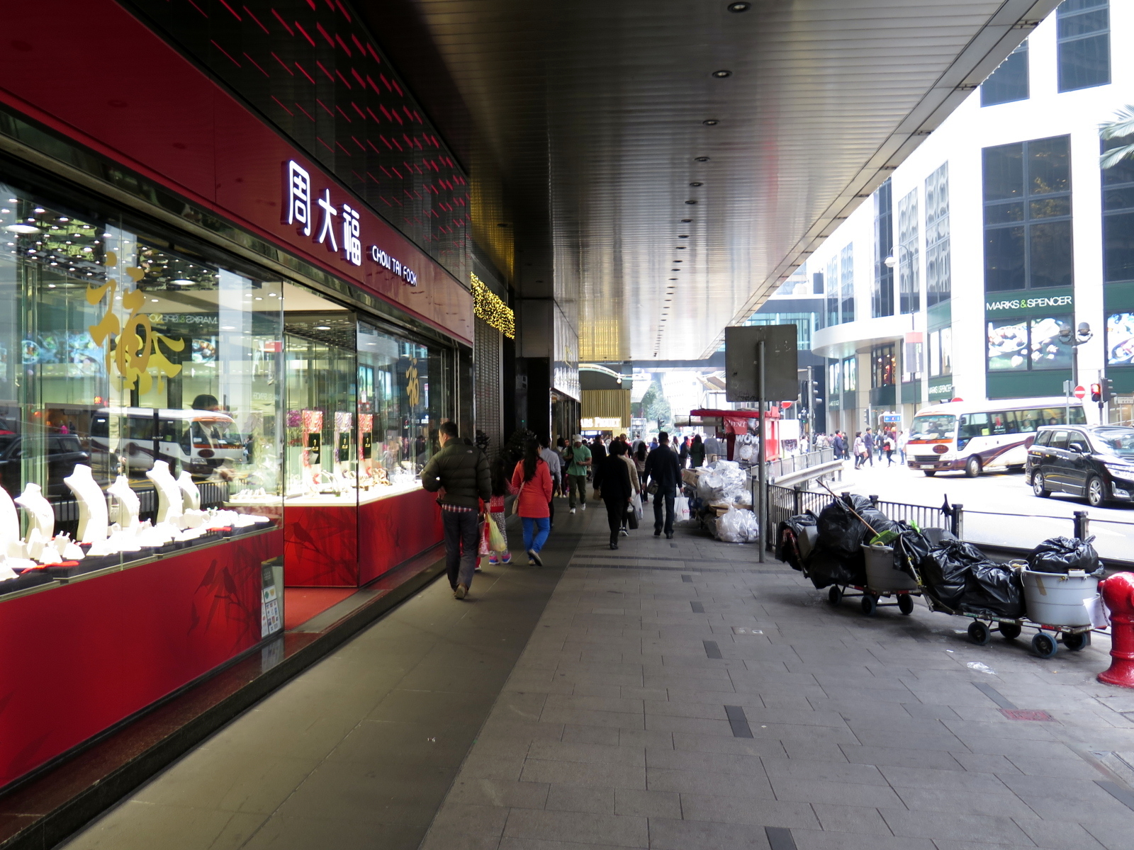 Queens Road Central Chow Tai Fook